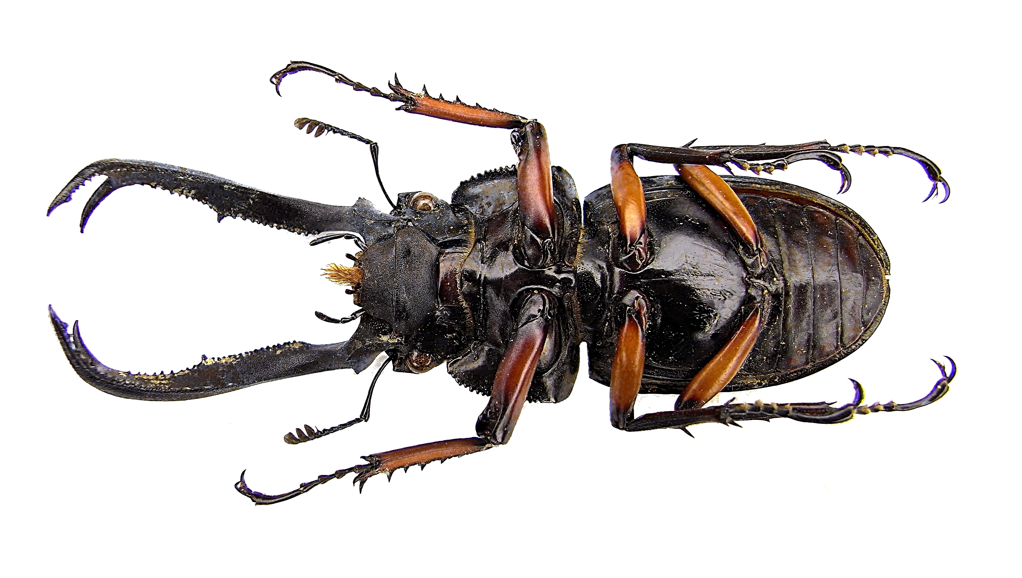 Rhaetulus didieri